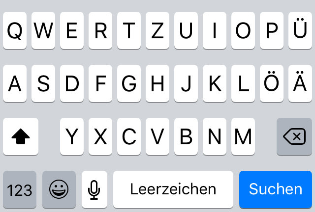 The Keyboard in iOS 9